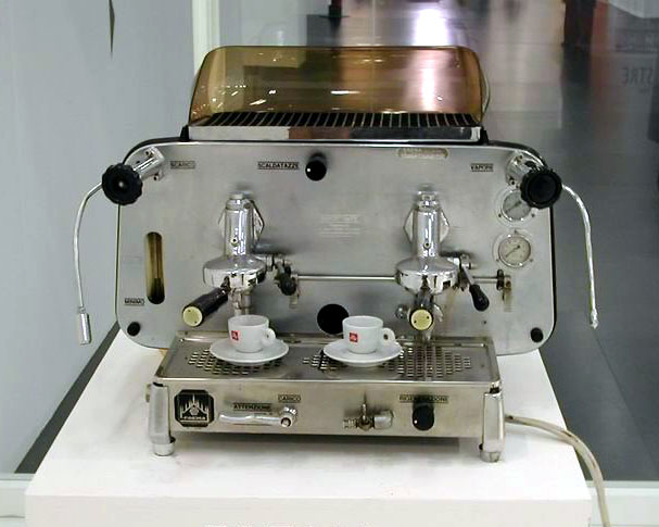 The Faema espresso machine : modello E61 – 1961, Italy.